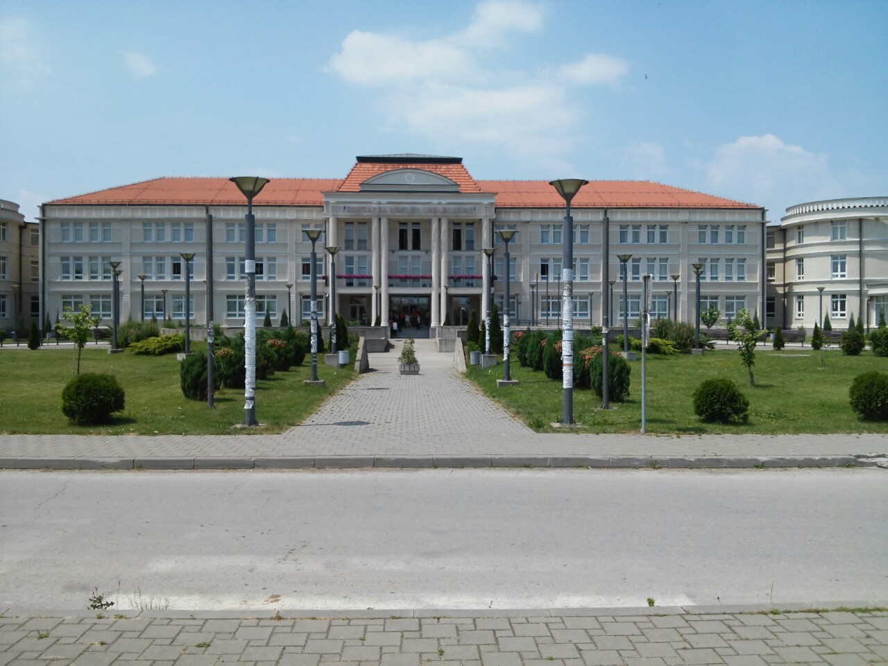 Педагошки факултет Универзитета Источно Сарајево